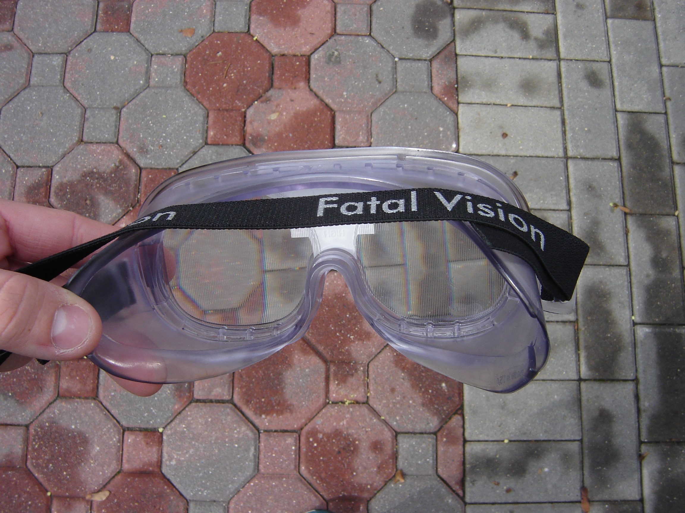 Fatal Vision goggles that simulate alcohol impairment. The visual distortion of the goggles is evident from the brickwork on the ground.